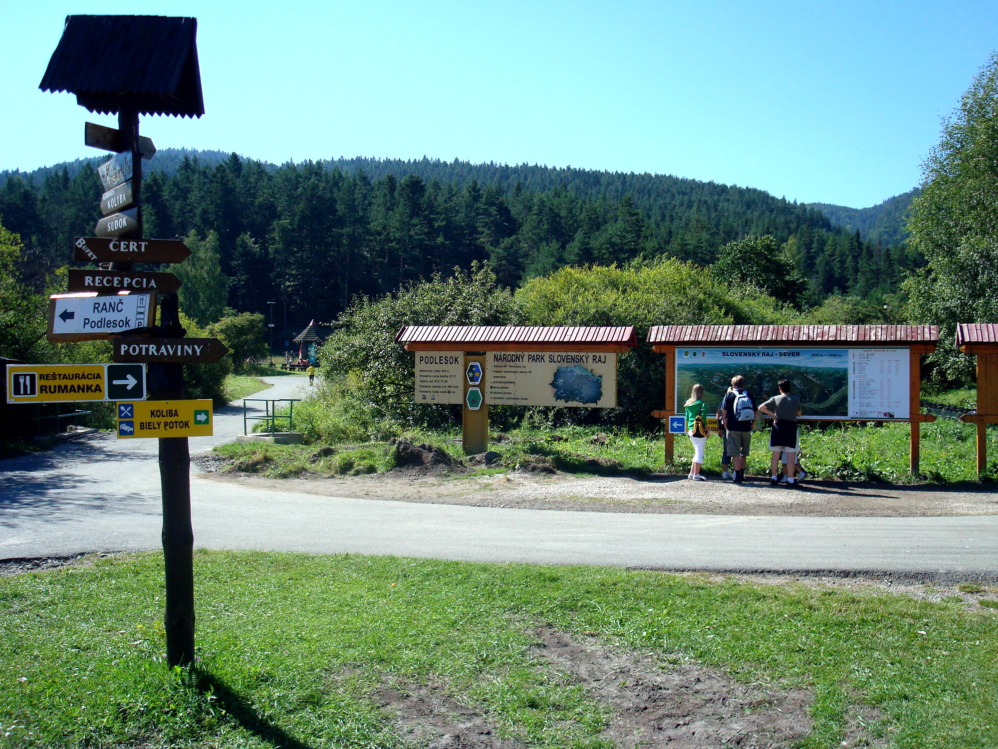 Podlesok, Slovak Paradise